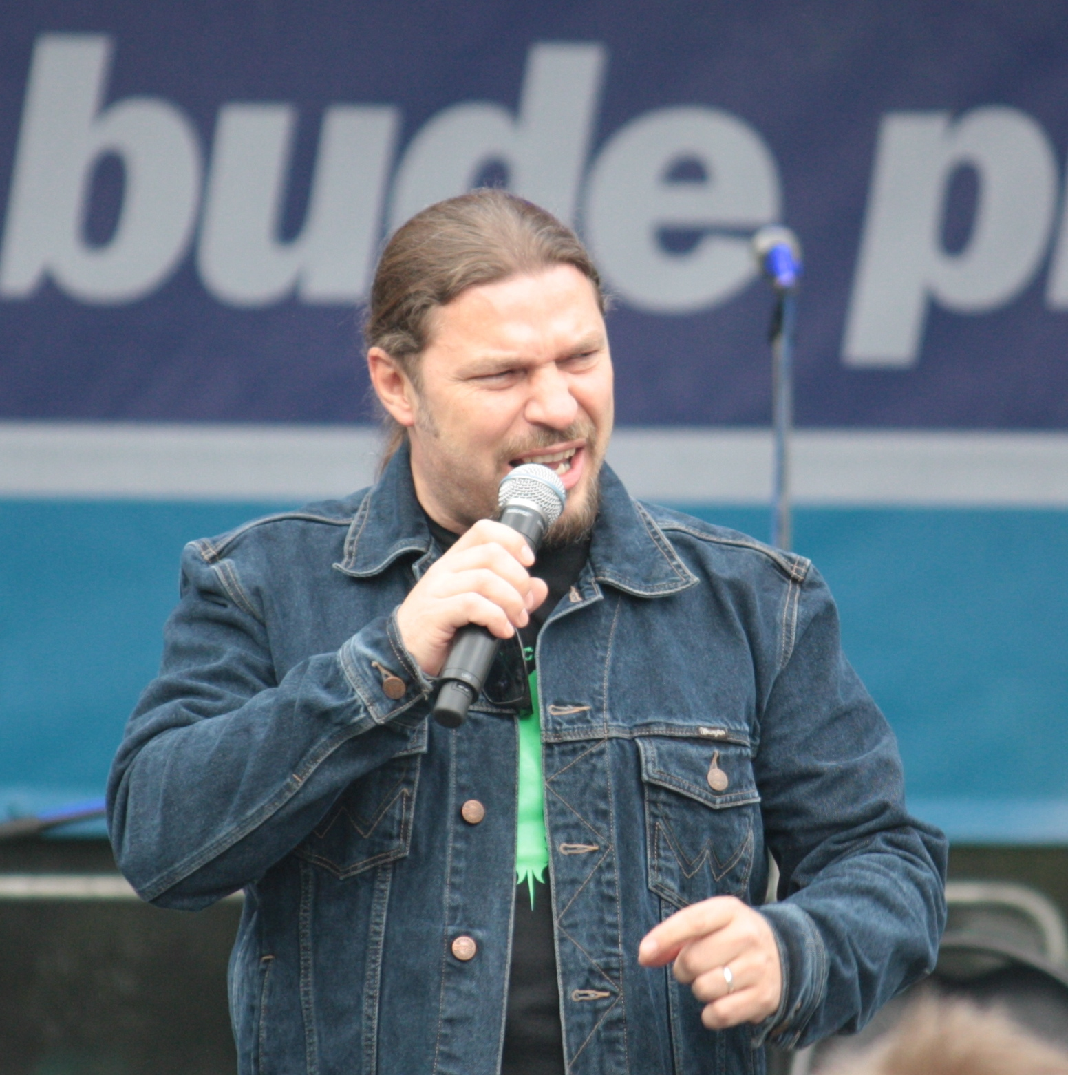 Czech musician Petr Kolář during ODS election campaign meeting on Prague island Kampa